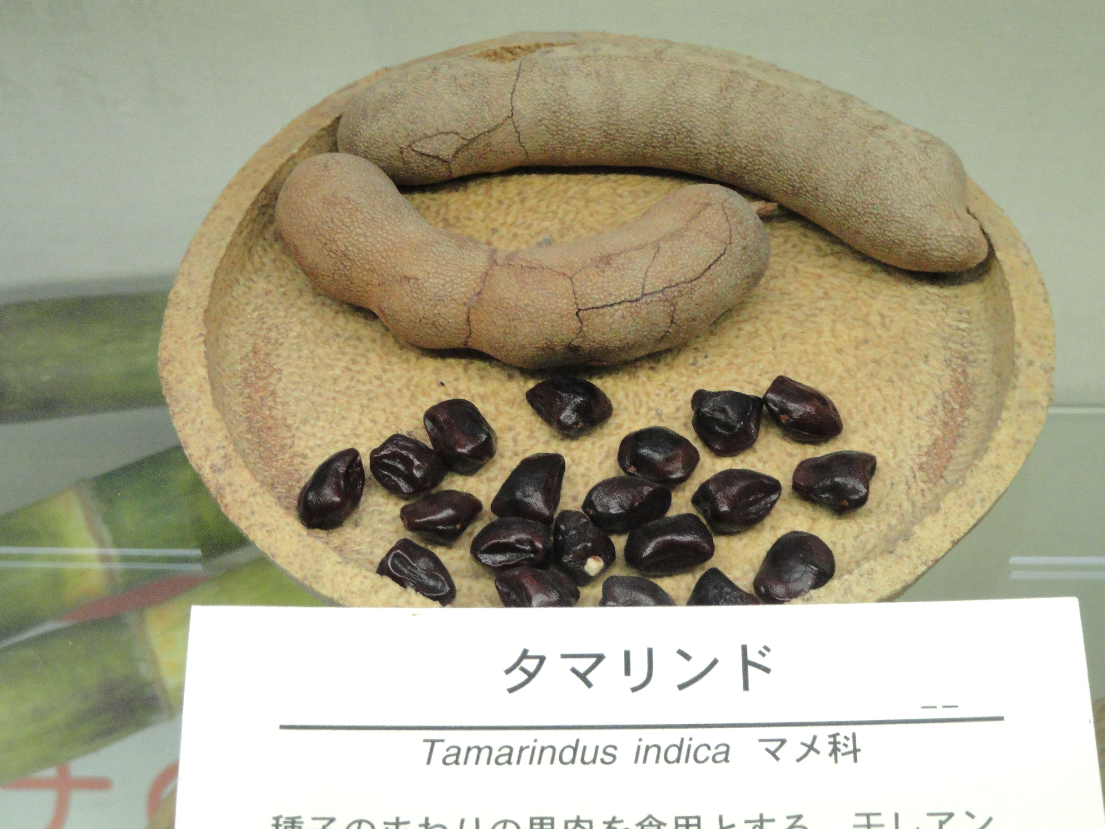 Exhibit in the Osaka Museum of Natural History, Osaka, Japan.